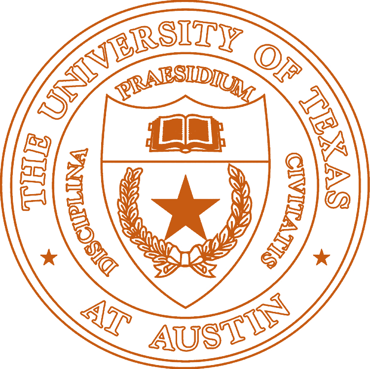 The seal of the University of Texas at Austin, colored the official rgb(199, 91, 18) signature burnt orange of the university. It was designed by Dr. William Battle in 1903 and officially adopted by the Board of Regents on October 31, 1905 (per UT Seal, Ex-Students Association of the University of Texas).